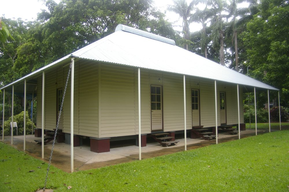 Former Wesleyan methodist church. Darwin, NT's oldest building.